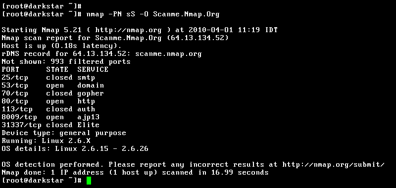 Screenshot of nmap 5.21 run